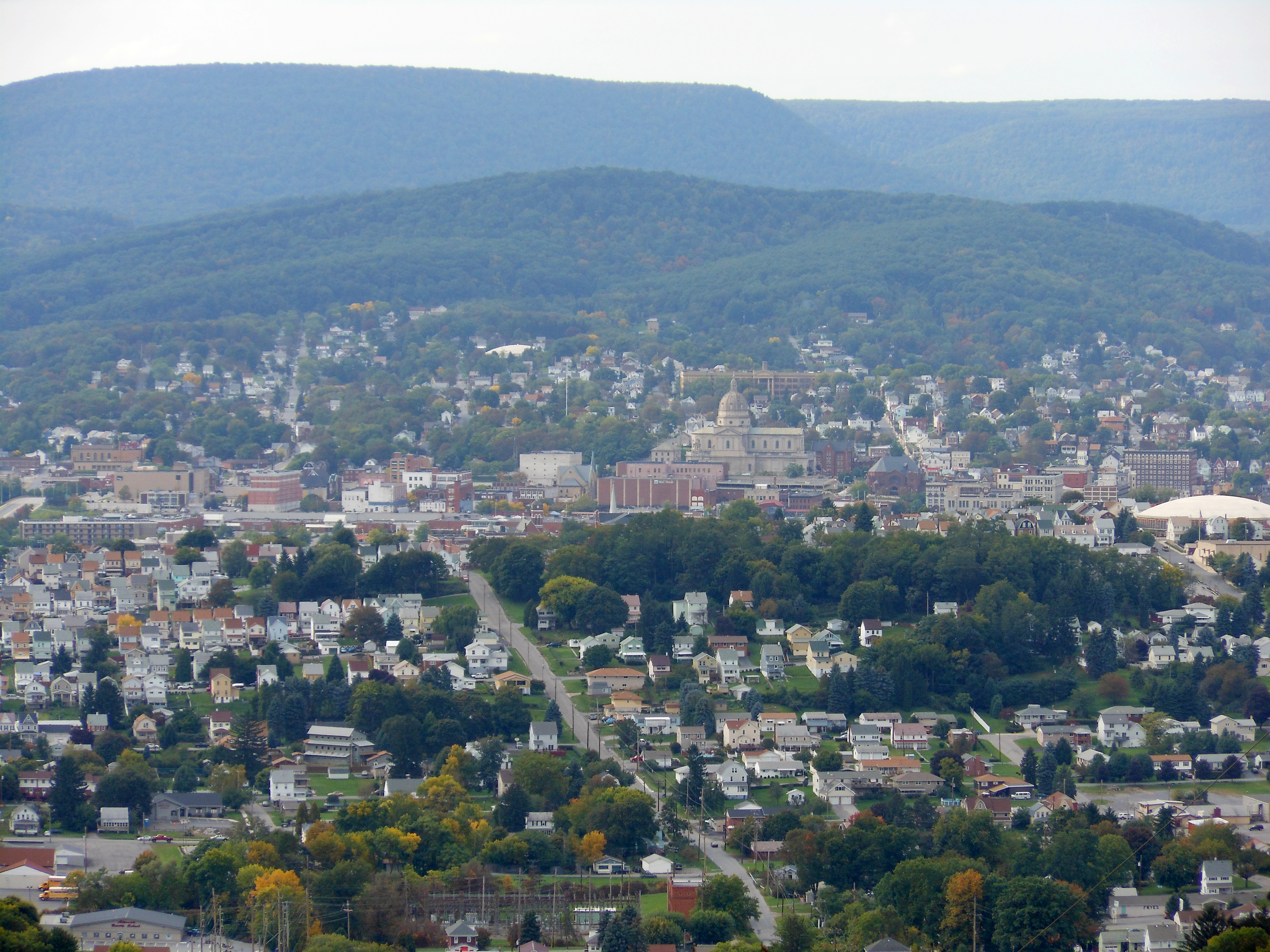 Taken from the top of Brush Mountain focusing on Downtown.